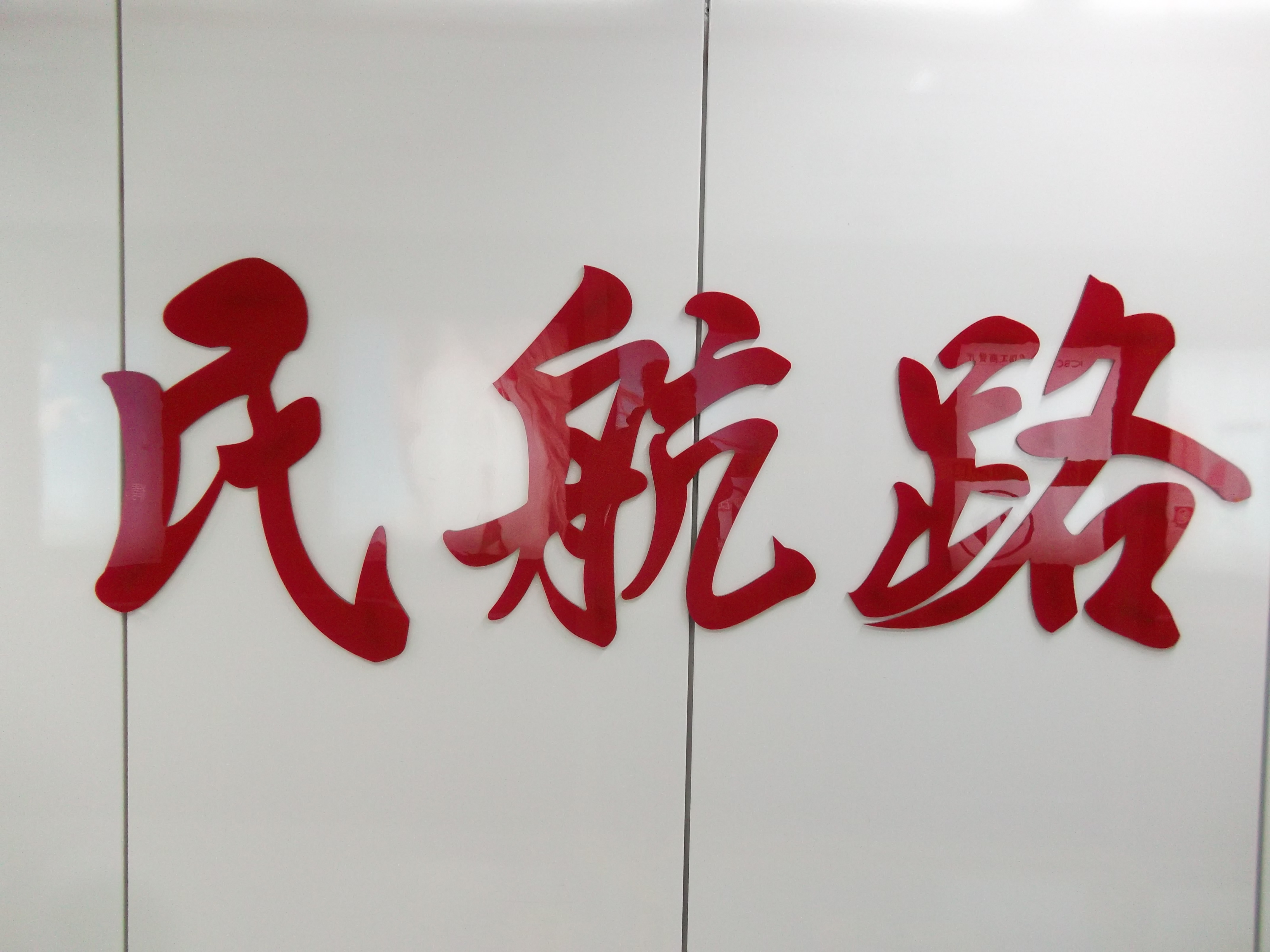 Zhengzhou Metro Line 1 Minhang Rd. Sta.